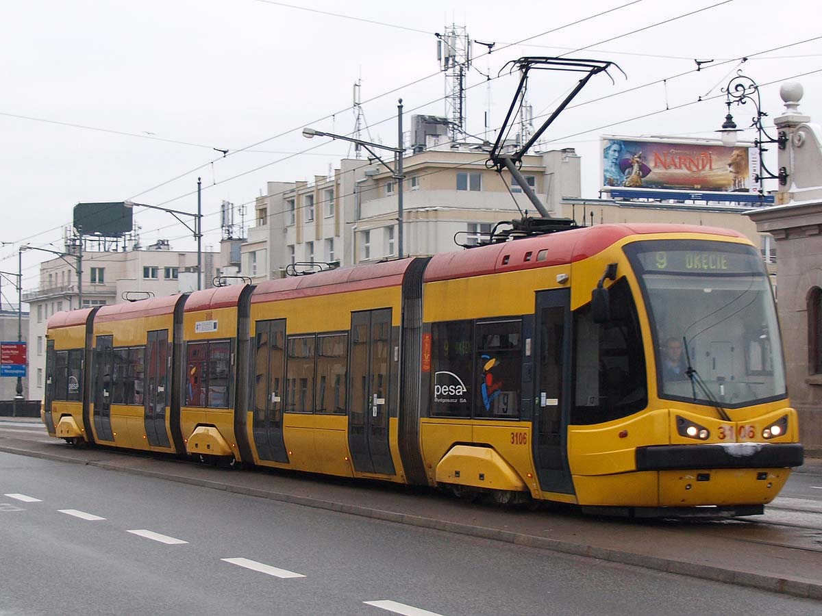 PESA 120N of Warsaw tram. Taken at Most poniatowskiego.